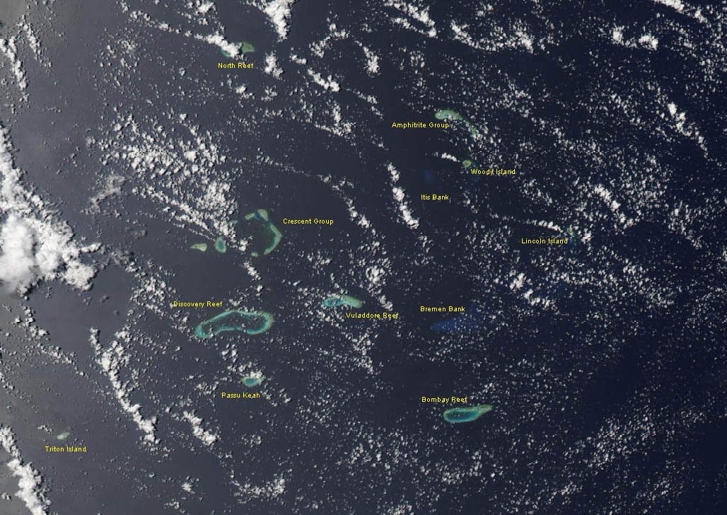 The panoramic image of Paracel Islands